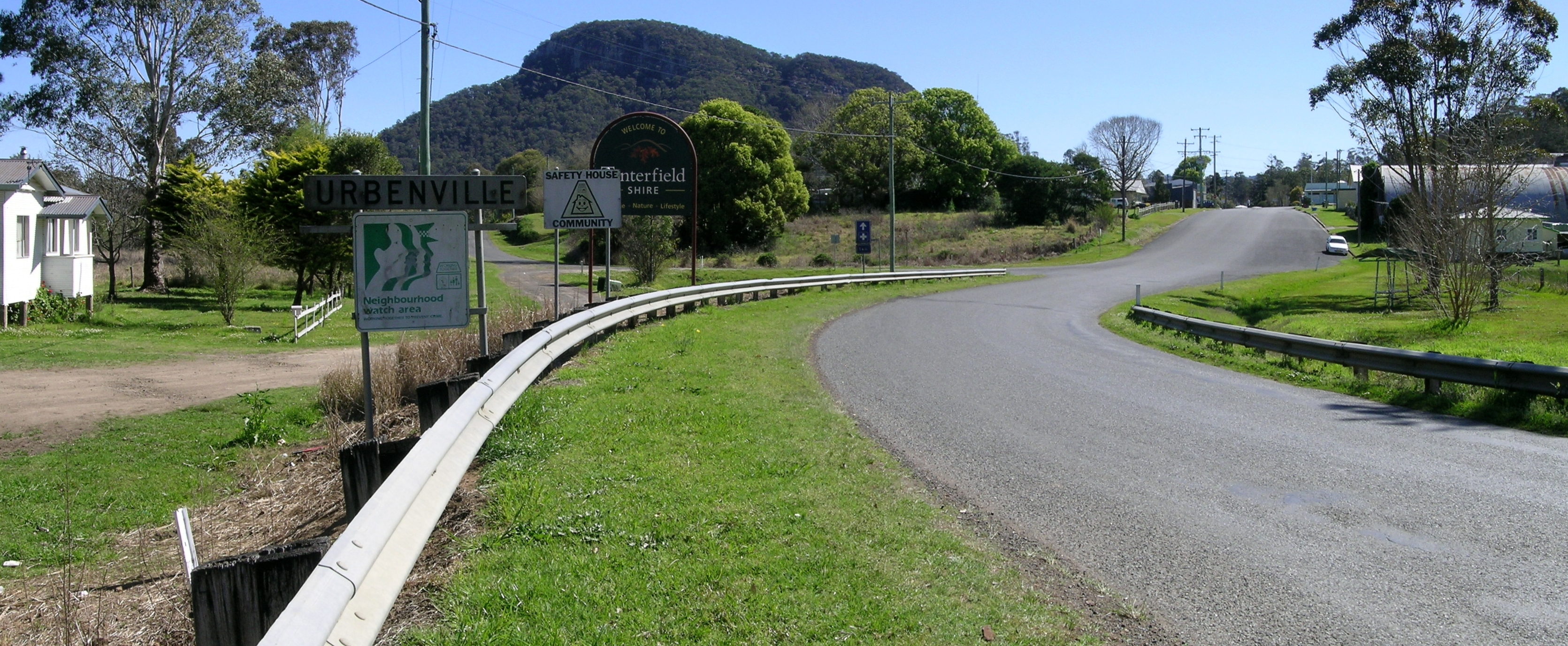 Entry signs to Urbenville with Crown Mountain in the backgound.